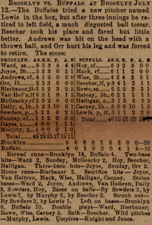 A clipping from Sporting Life, July 19, 1890, describing a baseball game between Buffalo and Brooklyn